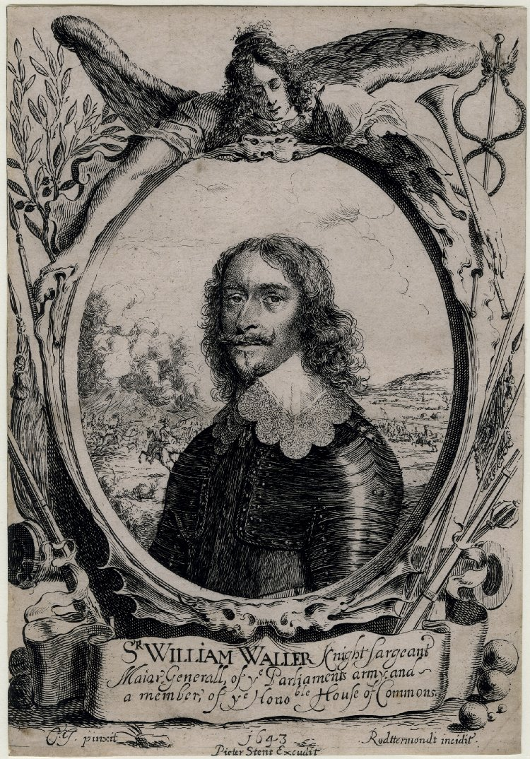 Portrait of Sir William Waller, etching, by Rodermondt, after a portrait by Cornelius Johnson. Published by Peter Stent. 210 mm x 145 mm. Courtesy of the British Museum, London.